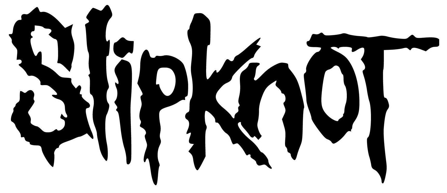 Logo of rock band Slipknot.